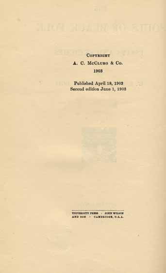 The Souls of Black Folk title page. By W.E.B. DuBois, first published 1903. Image:The Souls of Black Folk title page.jpg Encyclopedia article on Wikipedia Complete text on Wikisource